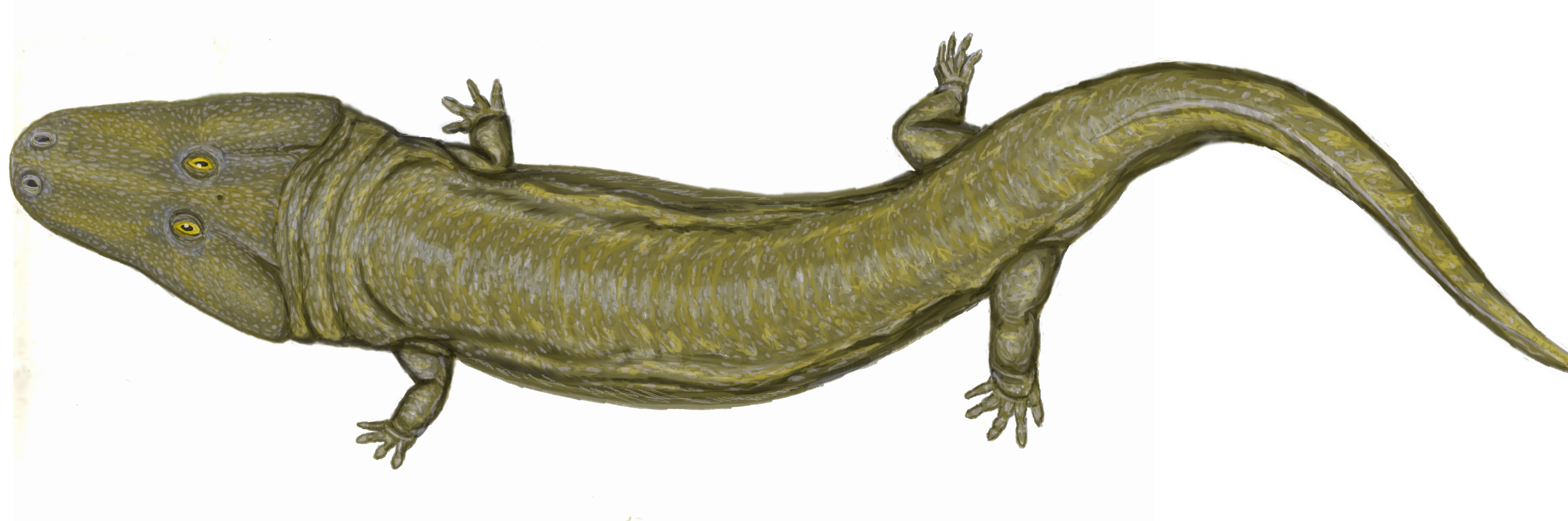 Giant Rhinesuchid Uranocentrodon senekalensis from Upper Permian of Malavi